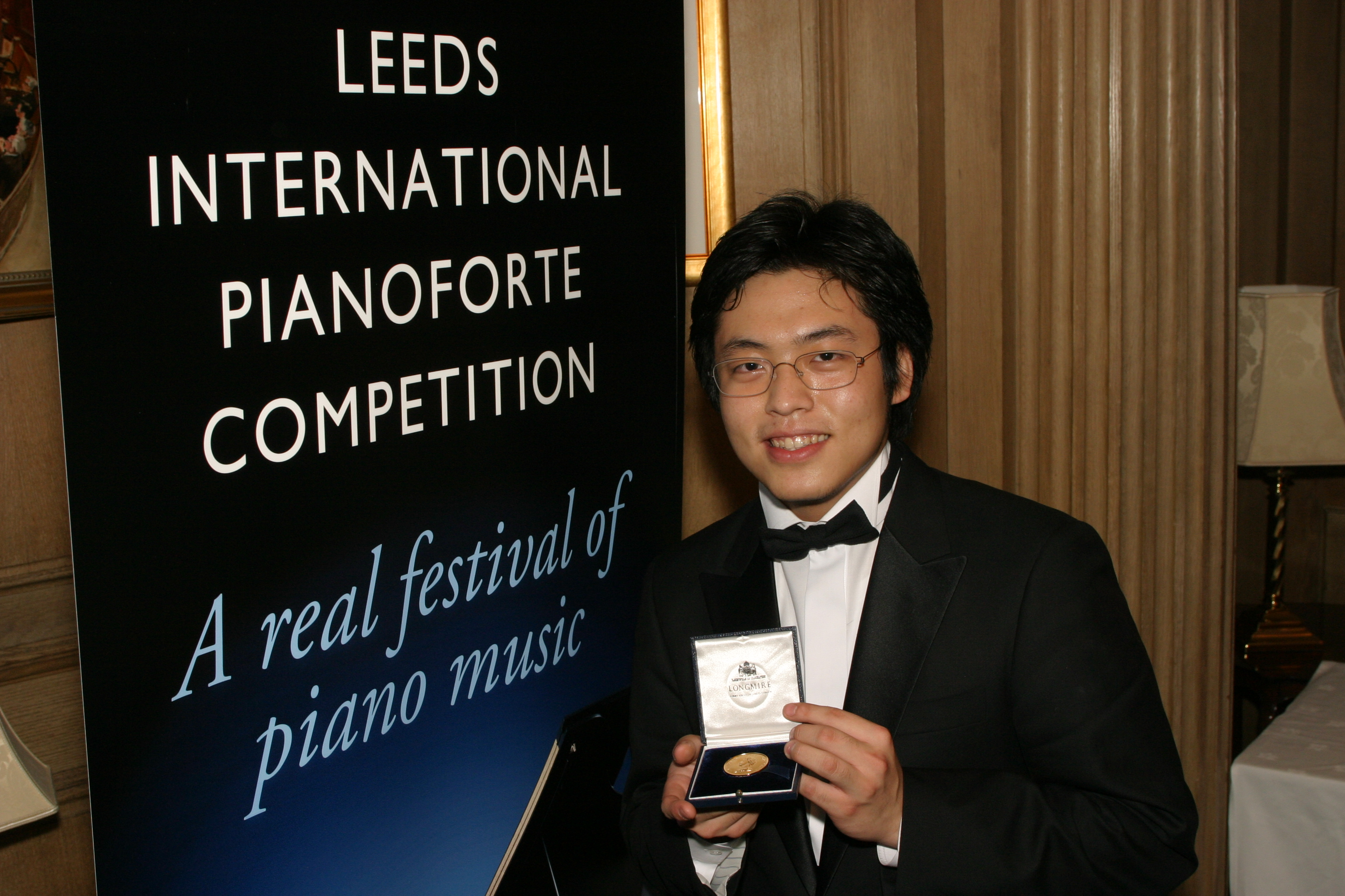 Sunwook Kim